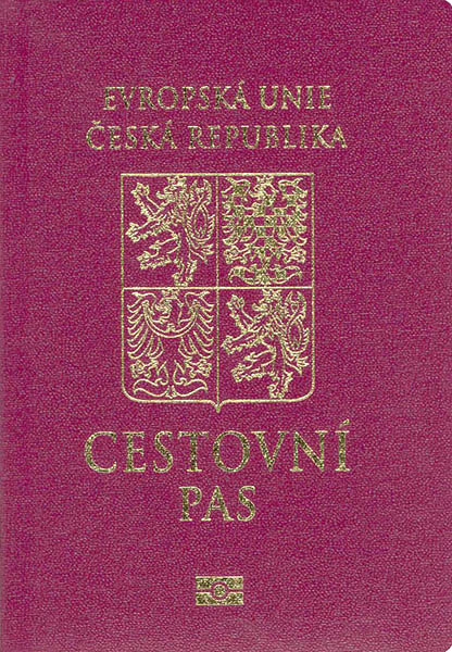 Title page of Czech passport in 2006.